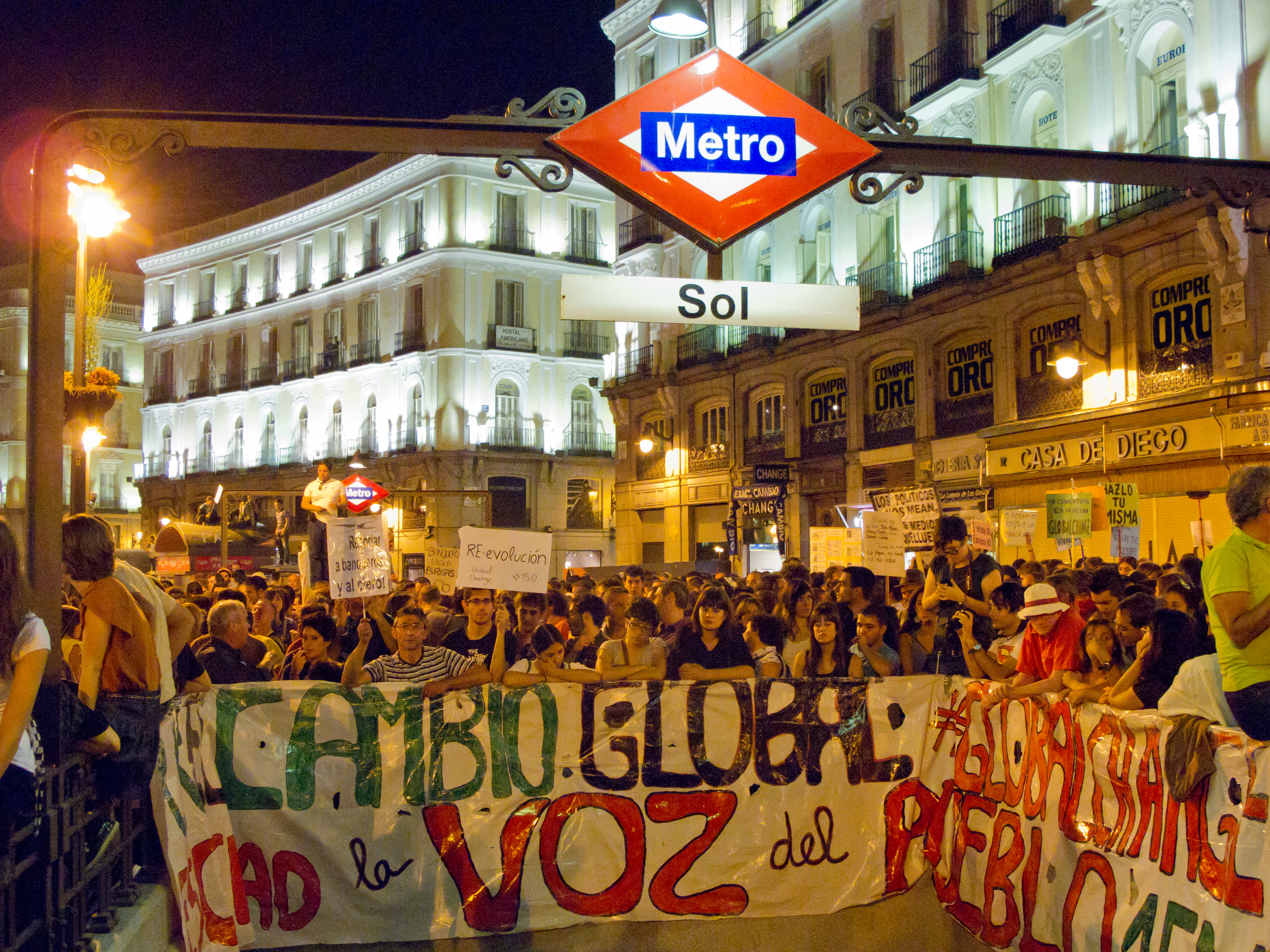 15th October 2011 demonstrators on one of the entrances to Sol subway station, Madrid, Spain.